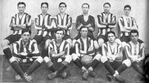 Defunct Uruguayan club River Plate Football Club in 1914. That year the team won a Primera División title.